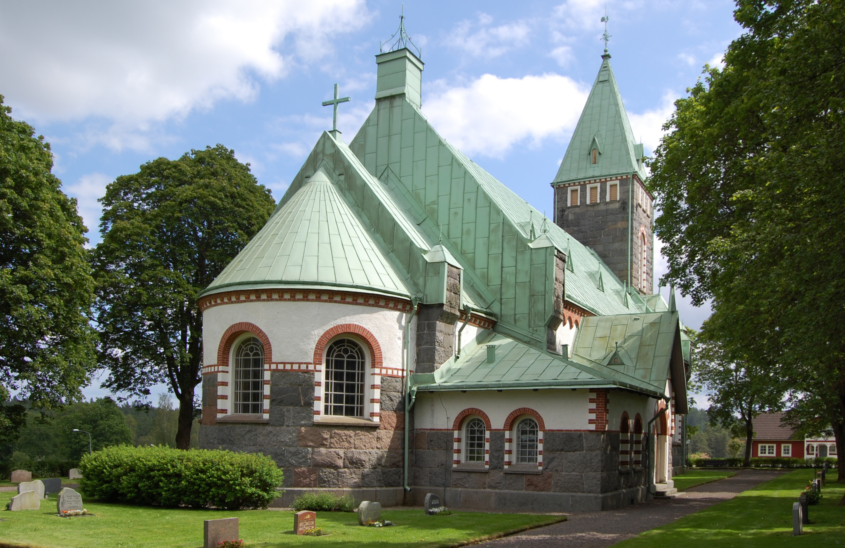 Bäckaby Church.The church was built in 1897 -1898 carved granite and brick in the Neo-Romanesque style designed by architect Carl Moller. The inauguration took place October 8, 1898 and förättades by Bishop N.J.O.H Lindstrom.